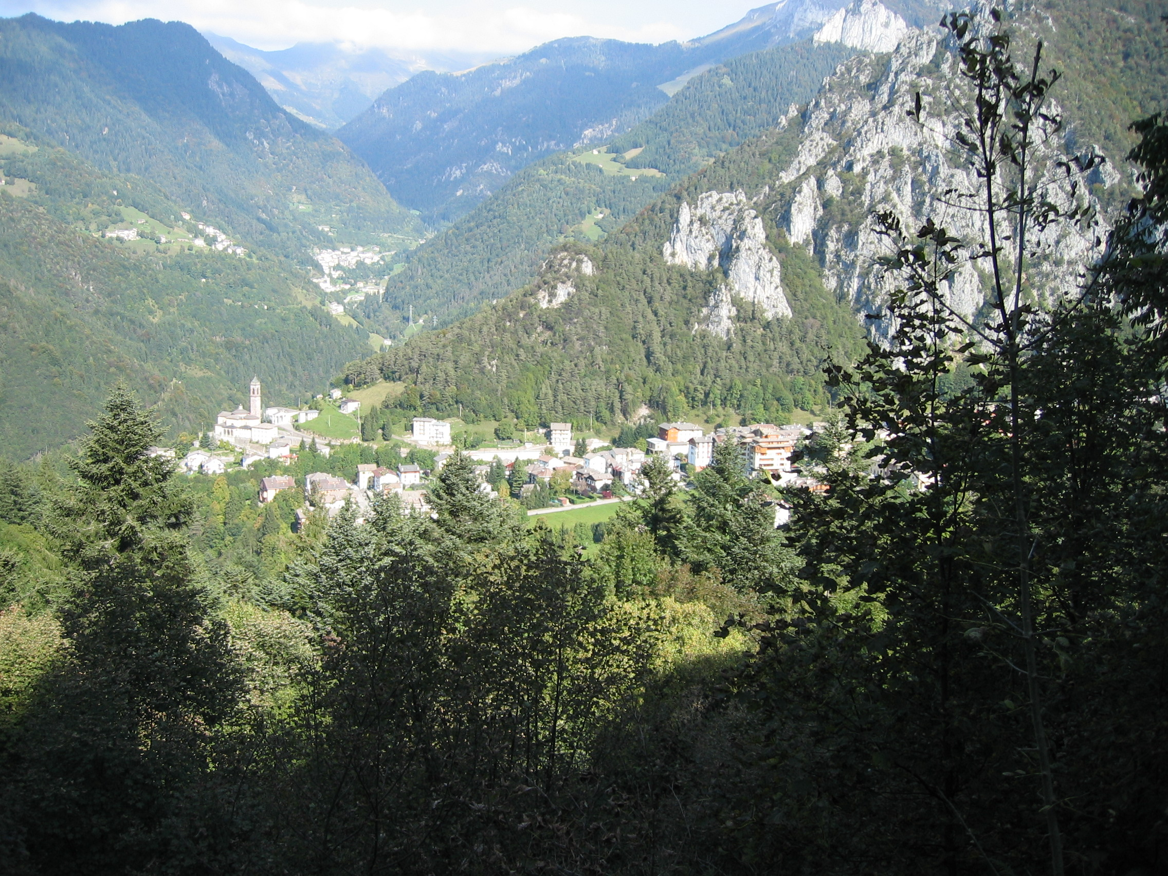 View of Piazzatorre, province of Bergamo, Lombardy, Italy